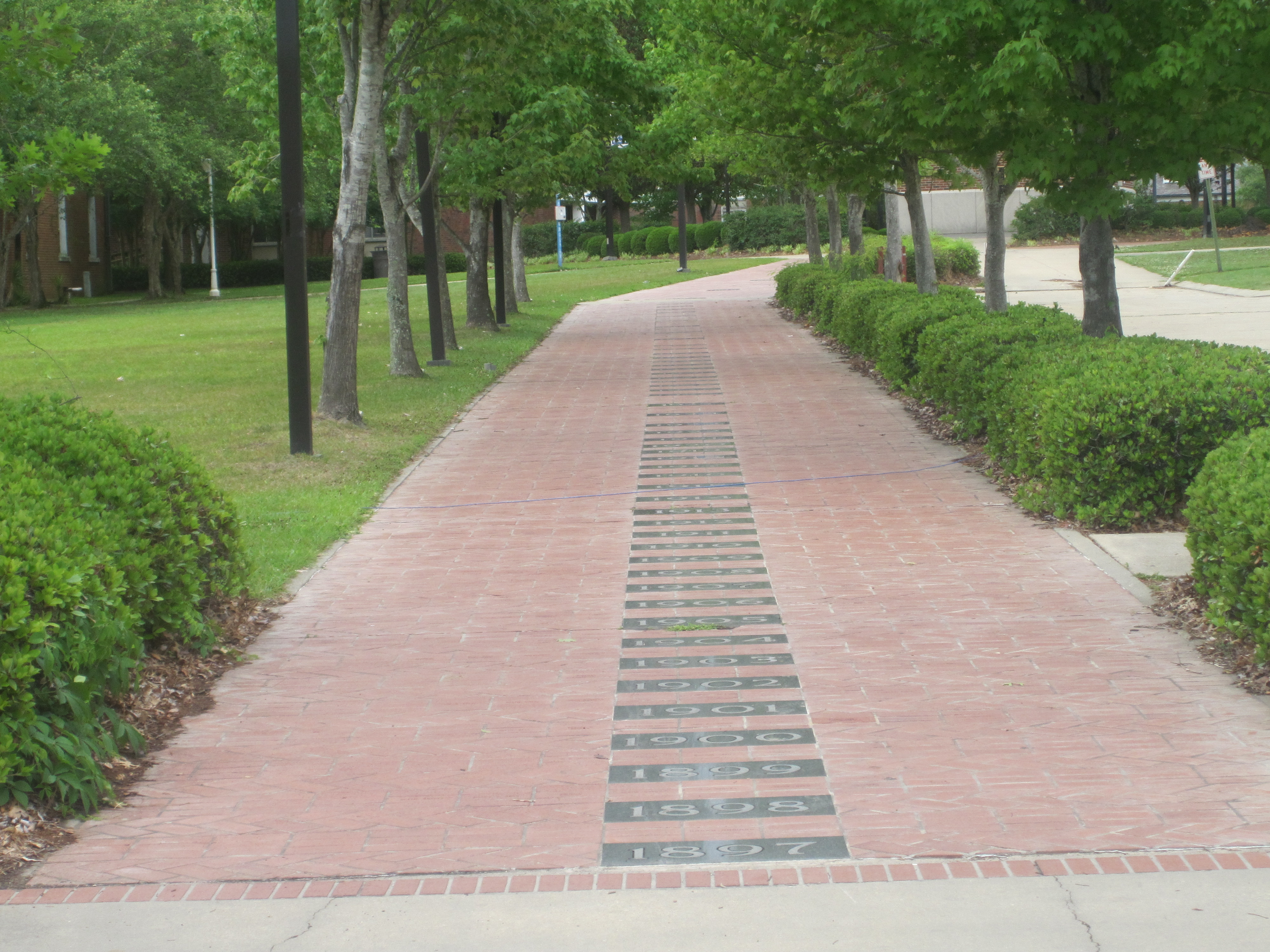 I took photo with Canon camera.